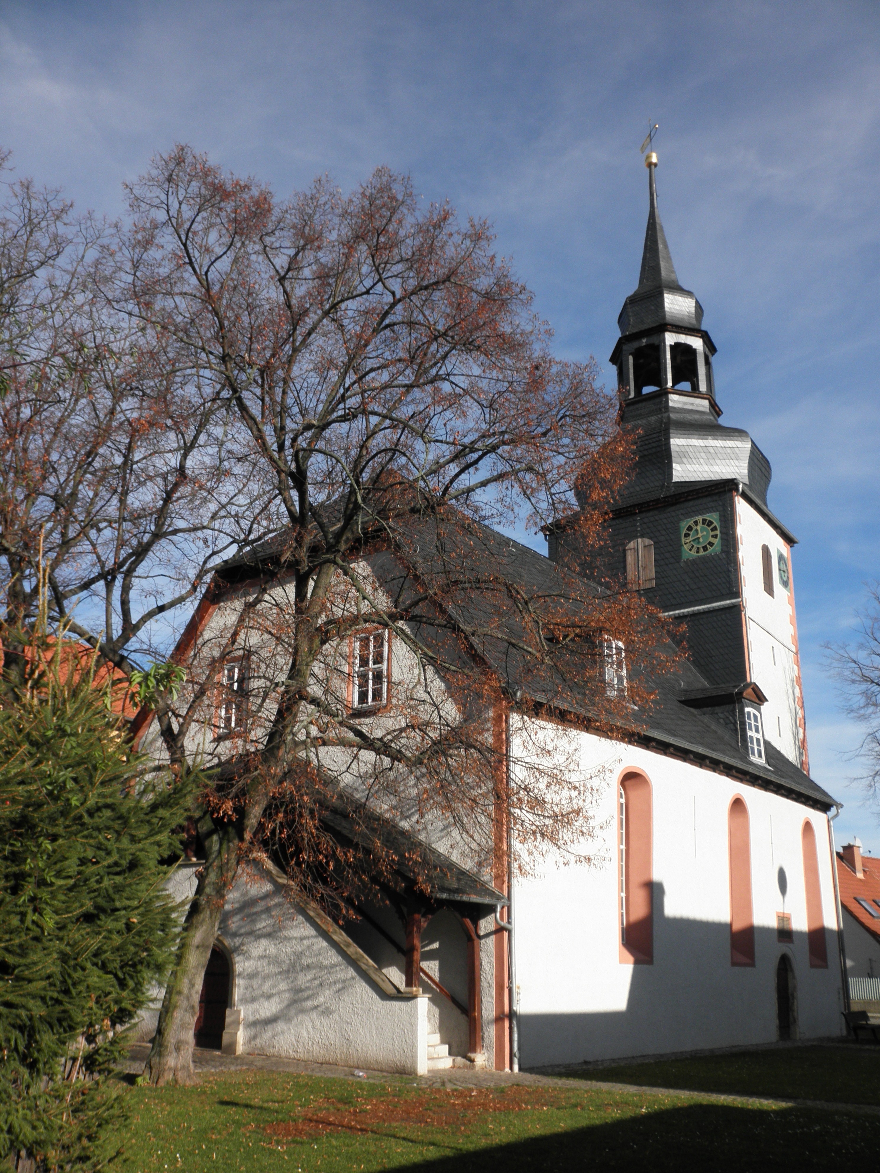 Church in Sprötau in Thuringia